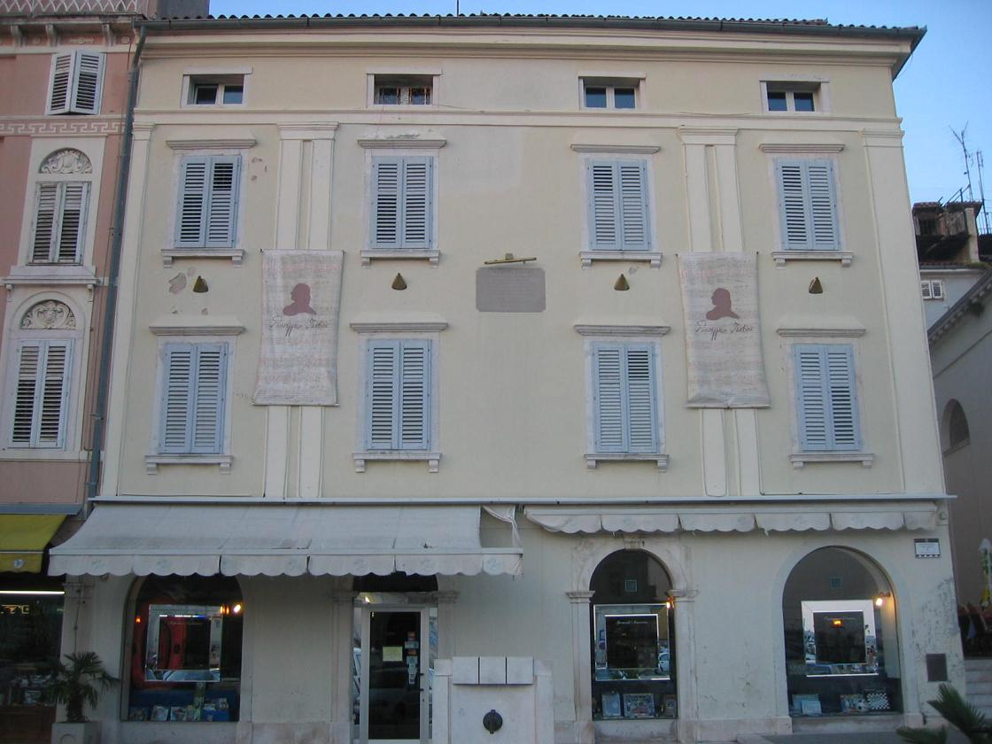 Birthhouse of famous italian violinist and composer in Piran, Slovenia photo:Ziga 07:54, 12 August 2006 (UTC)